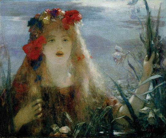 Nellie Melba as Ophelia in the opera Hamlet by Ambroise Thomas.